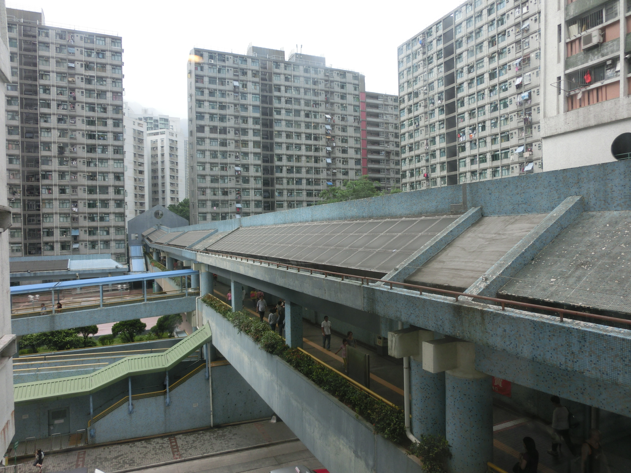 樂富,Lok Fu Estate, Lok Fu, Wong Tai Sin District, Hong Kong